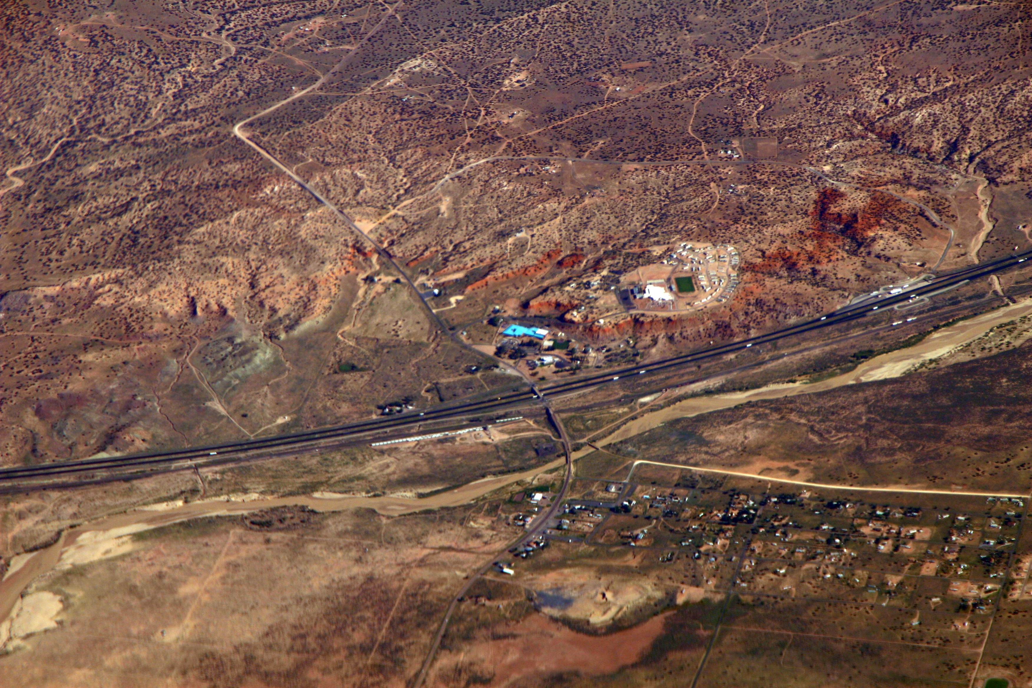 An aerial view of Sanders, Arizona, USA. Uploaded on August 16, 2007 by the Author: dsearls